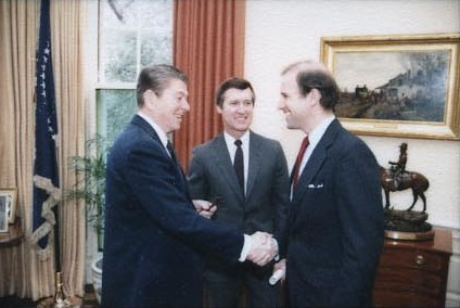 President Ronald Reagan, Nancy Reagan, Maureen Reagan (2-3) Luncheon with elected Republican party women officials, receiving line President Ronald Reagan, Mark Weinberg, Jann Duval, and Mark Weinberg, (Not in all Photos) (5-15) Making a radio address to the nation on taxes and the budget deficit President Ronald Reagan, Joseph Biden, William Cohen, George Bush, George Shultz, Robert McFarlane, Ronald Lehman, James Baker, Ed Meese, and Michael Deaver, (Not in all Photos) (17-25) Meeting with Joseph Biden and William Cohen to discuss arms control and the results of their trip to the Soviet Union last month